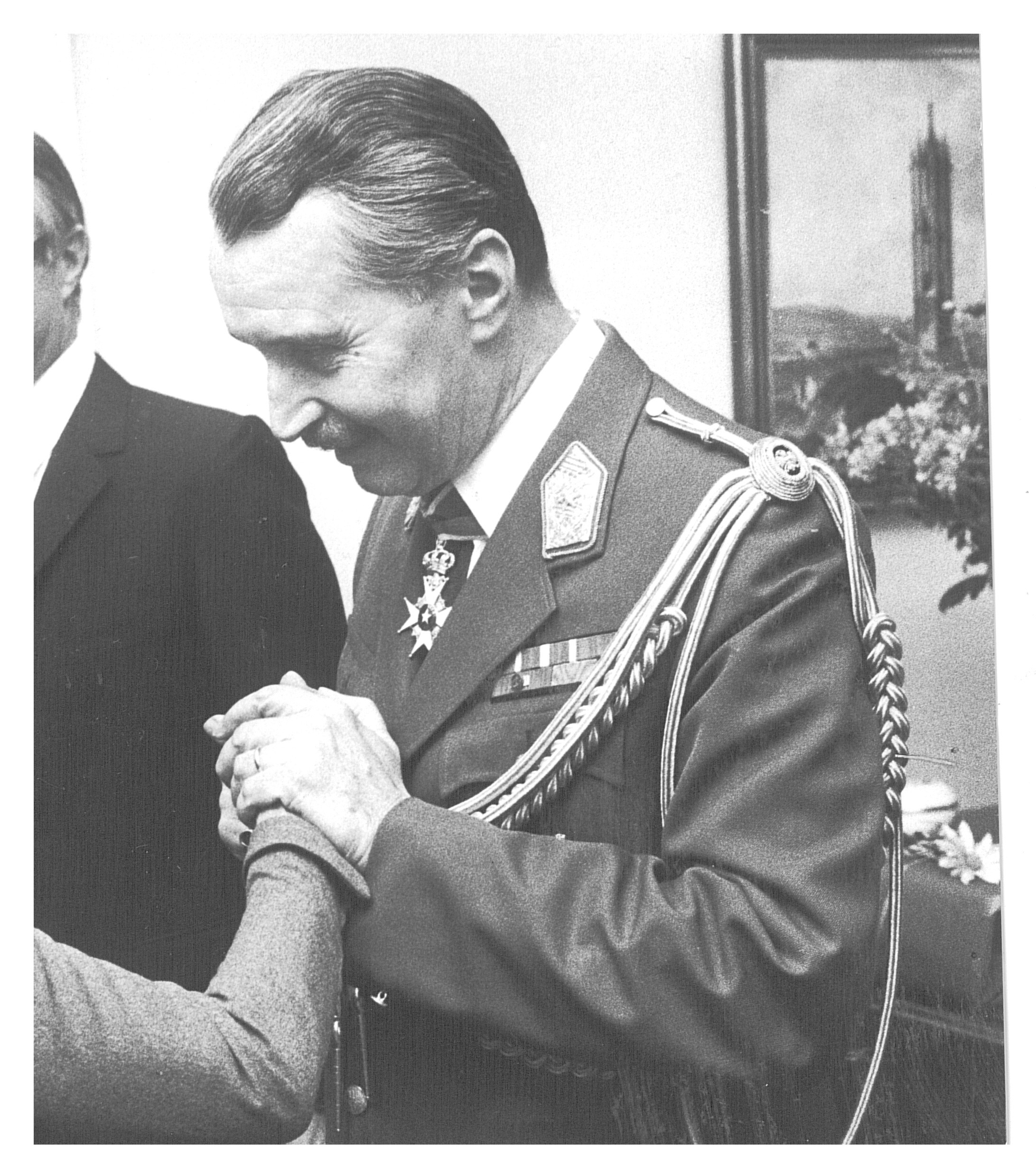 Generalmajor Franz Josef Attems-Petzstein (1914 - 2003)